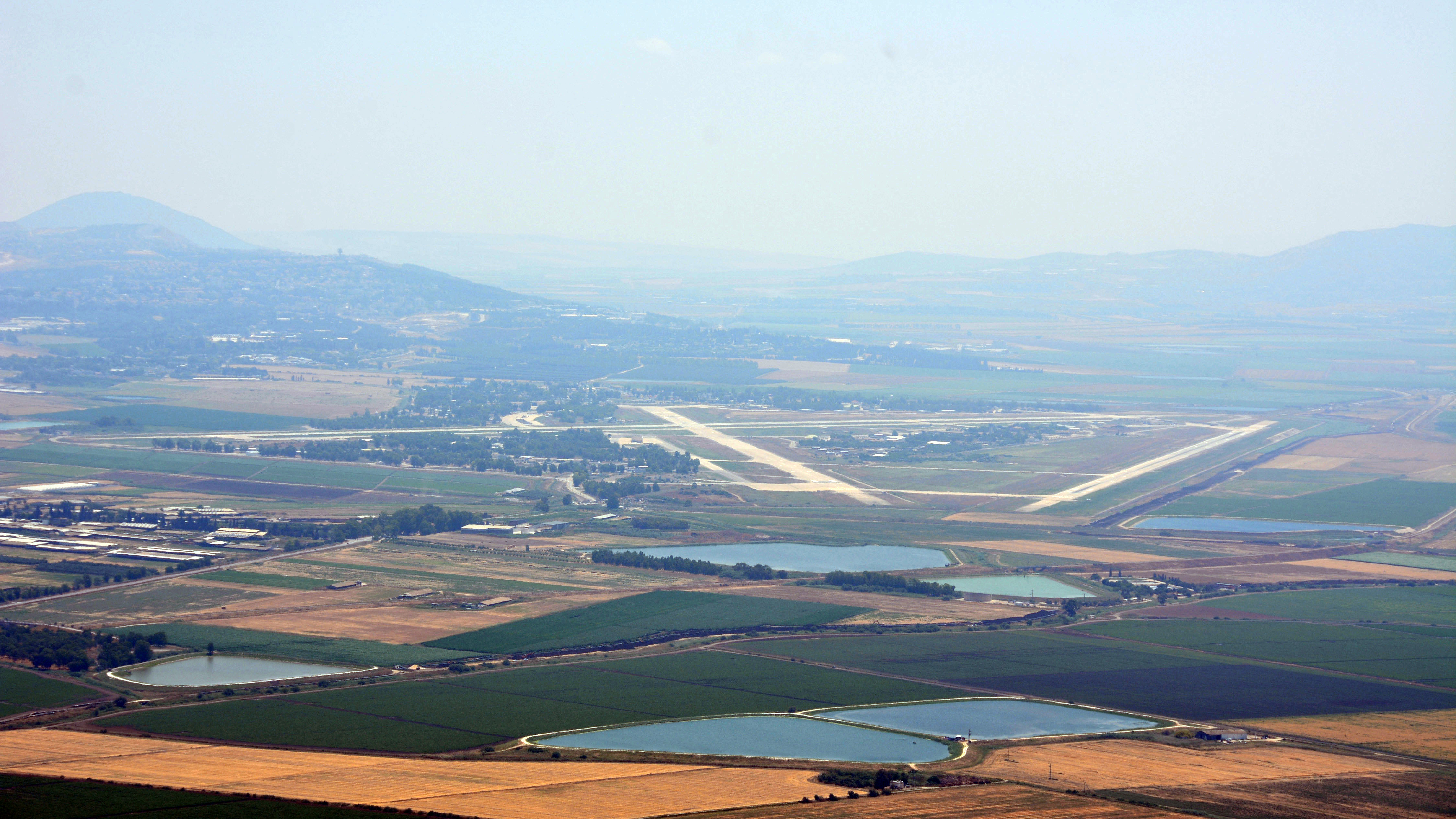 Ramat David Airbase in north Israel as seen from Mount Carmel